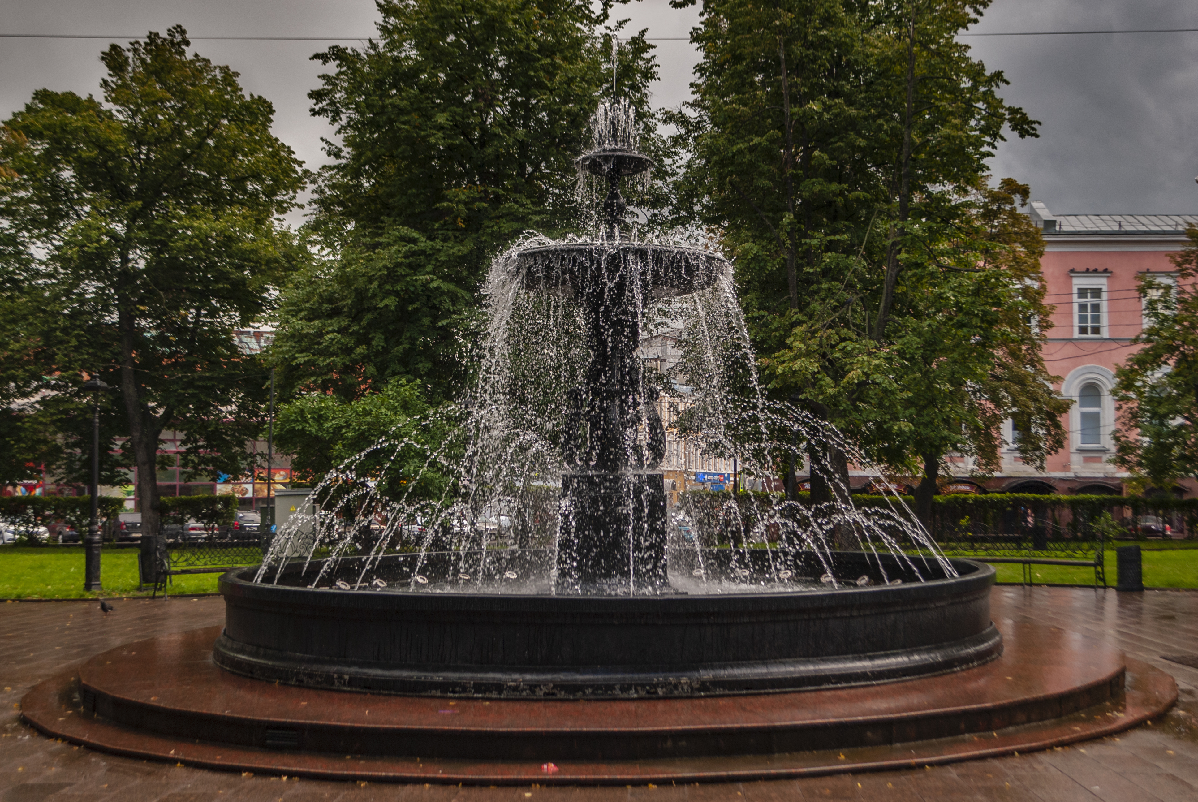 The main Nizhny Novgorod fountain